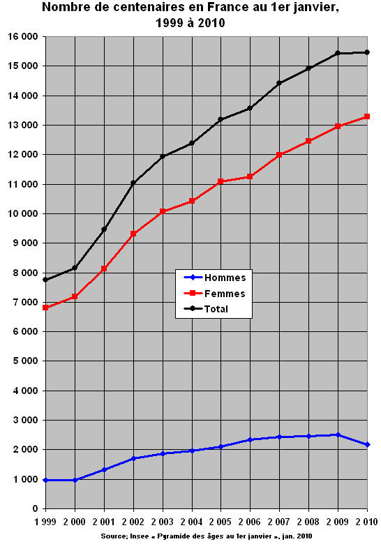 Resident population aged 100 years and over, France, 1999-2010